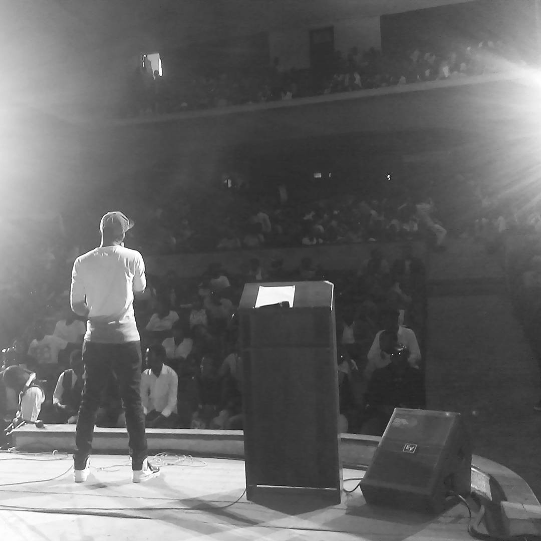 Malu NCB at Alfajiri college in Bukavu